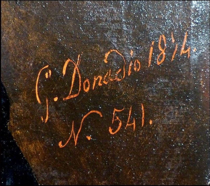 Signature of G. Donadio